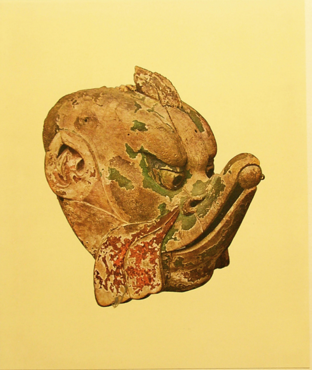 KARURA(GARUDA) CamphorWood, Colored, 28.6x21cm 法215号 Tokyo National Museum, former Horuji-Temple